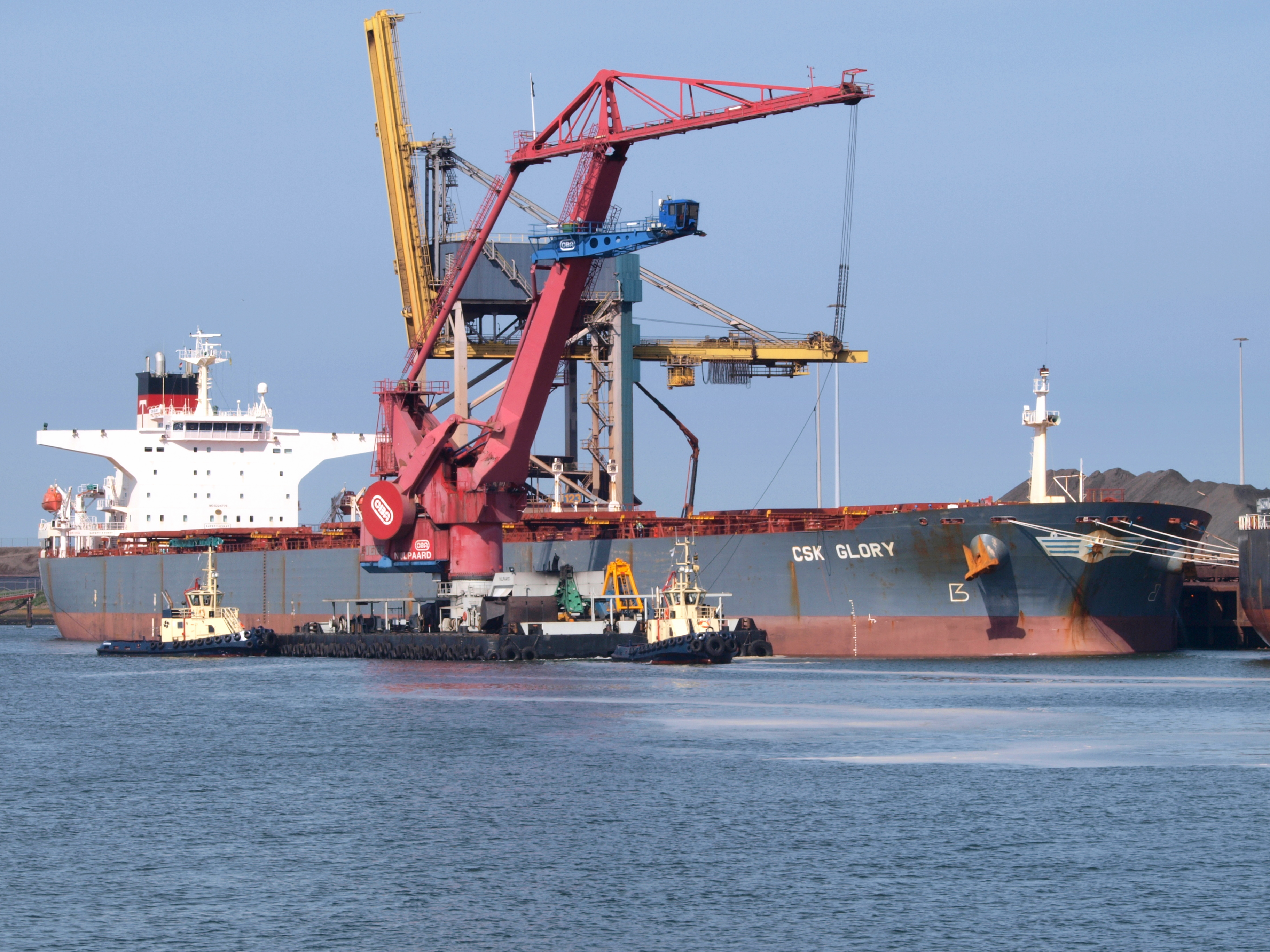 Photographed at the Port of Rotterdam, The Netherlands.